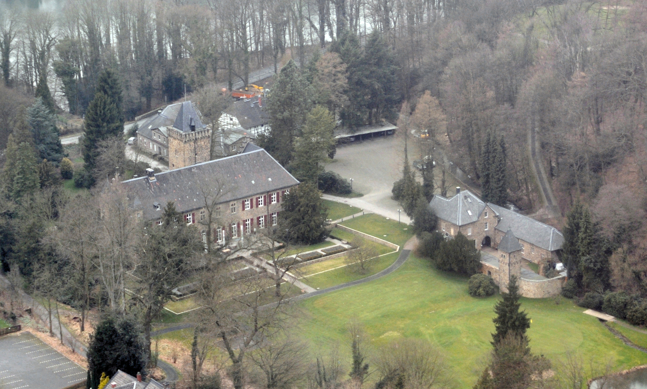 Aerial photograph of Schloss Oefte in Essen-Kettwig